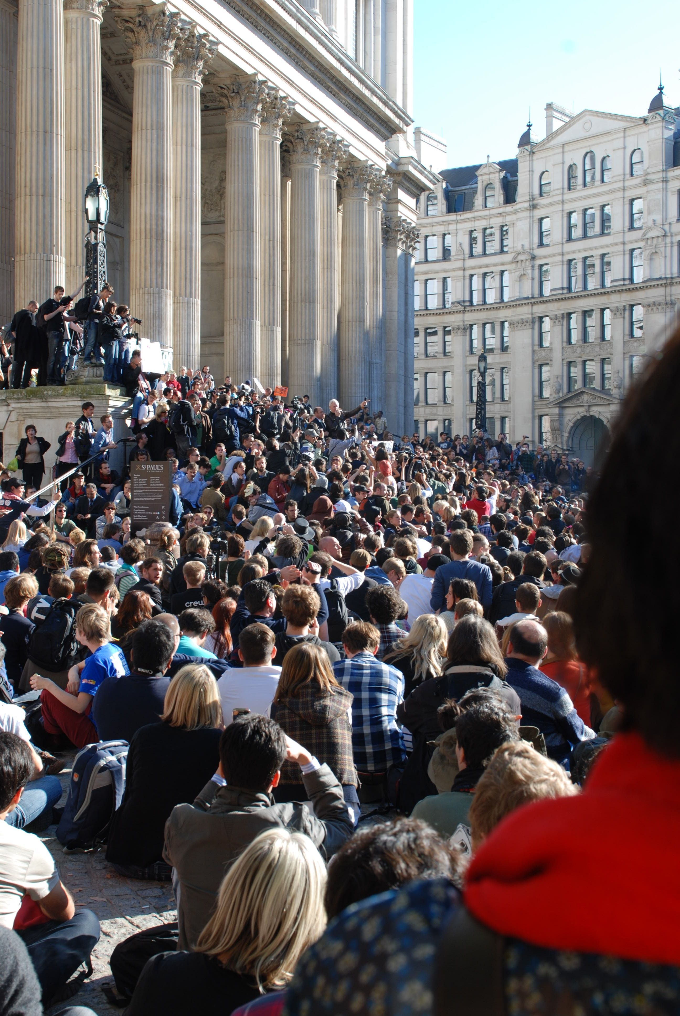 Julian Assange speaking at Occupy London protest